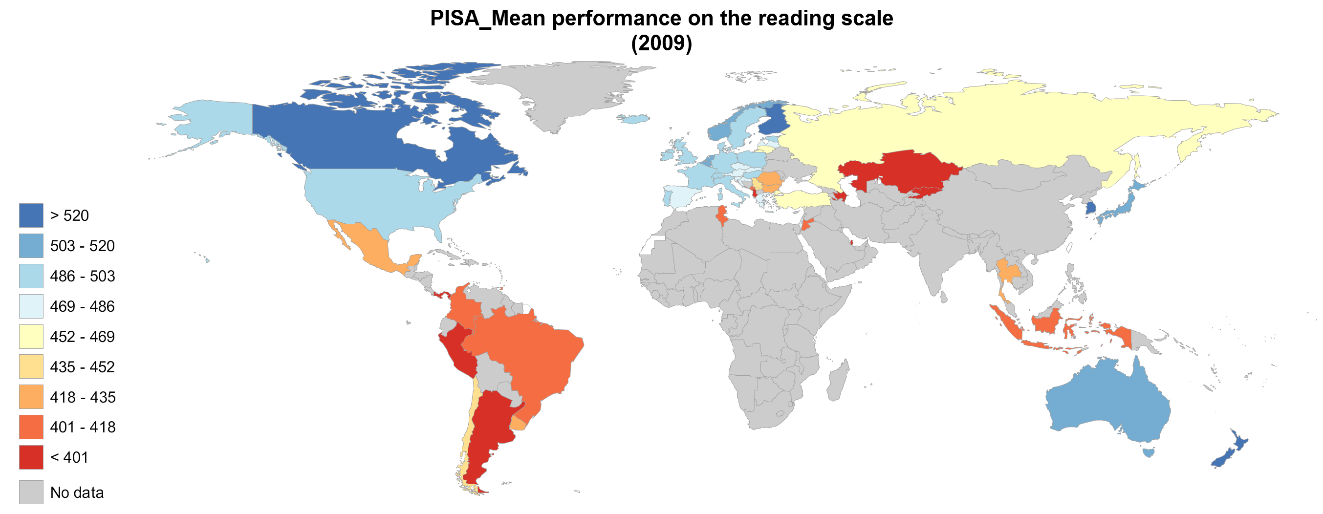 "Programme for International Student Assessment" 2009 average Reading scores